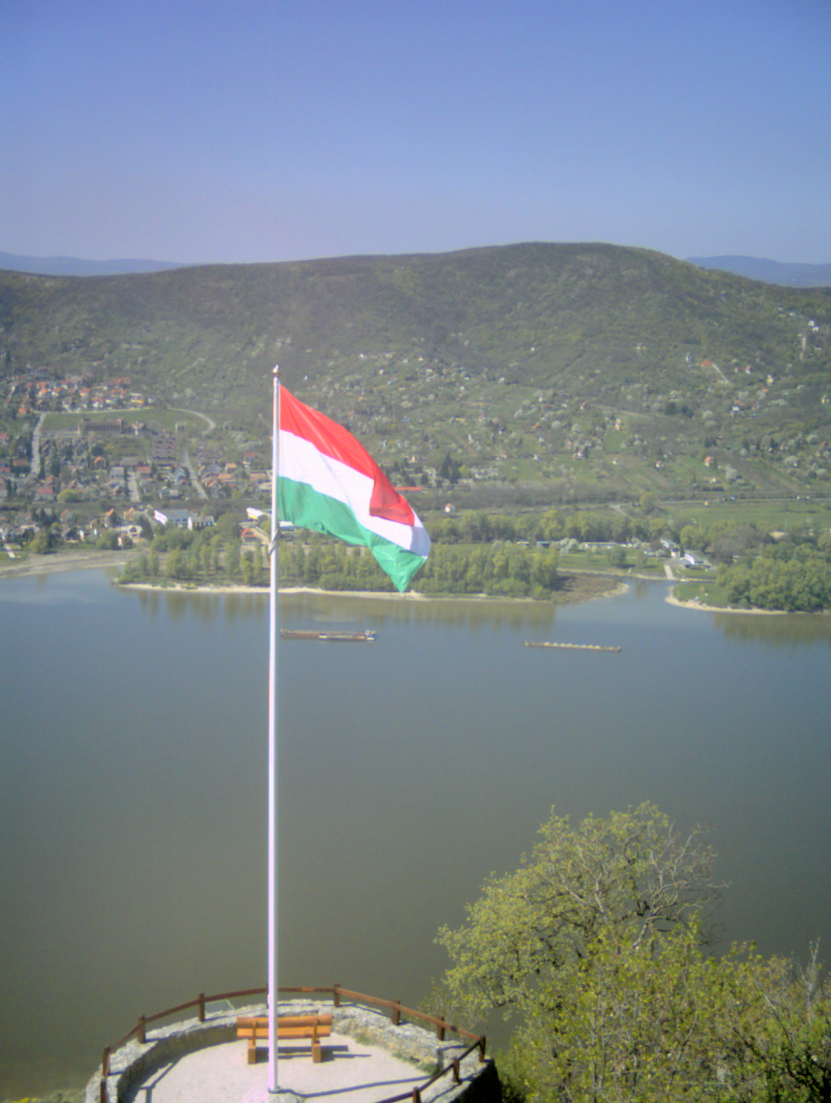 Hungarian flag, with the Danube River and the town of Nagymaros on the background